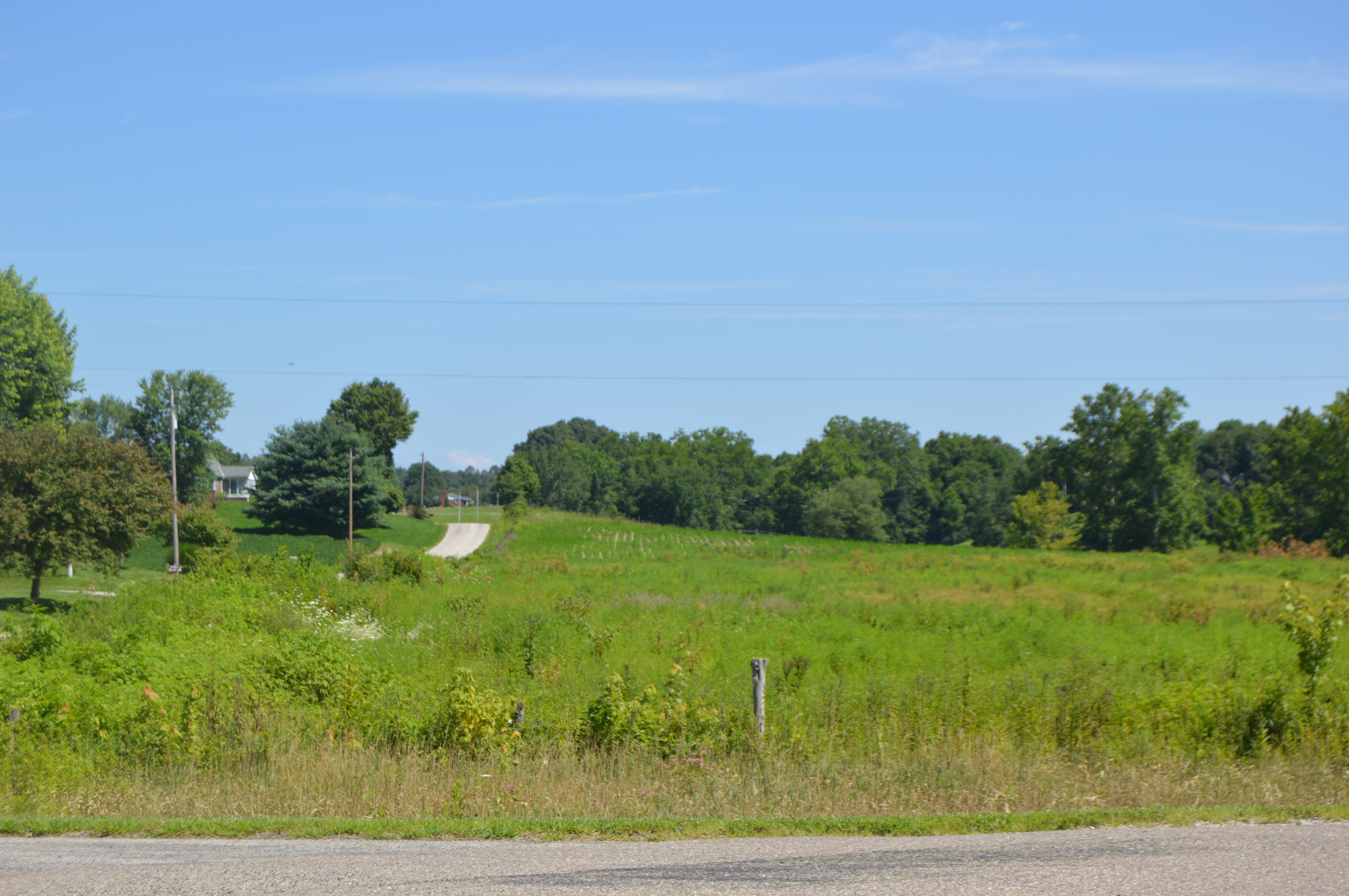 Looking northward from State Route 325 north of Vinton in Huntington Township, Gallia County, Ohio, United States. Adney Road is visible at left.